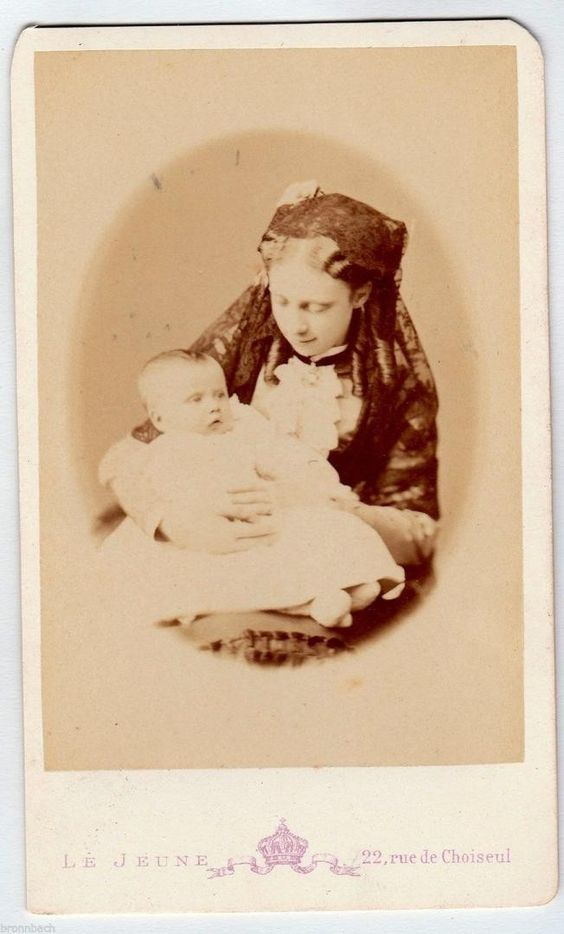 Margherita, Duchess of Madrid (1847-1893) neé Bourbon-Parma and son Don Jaime, Duke of Madrid (1870-1931)